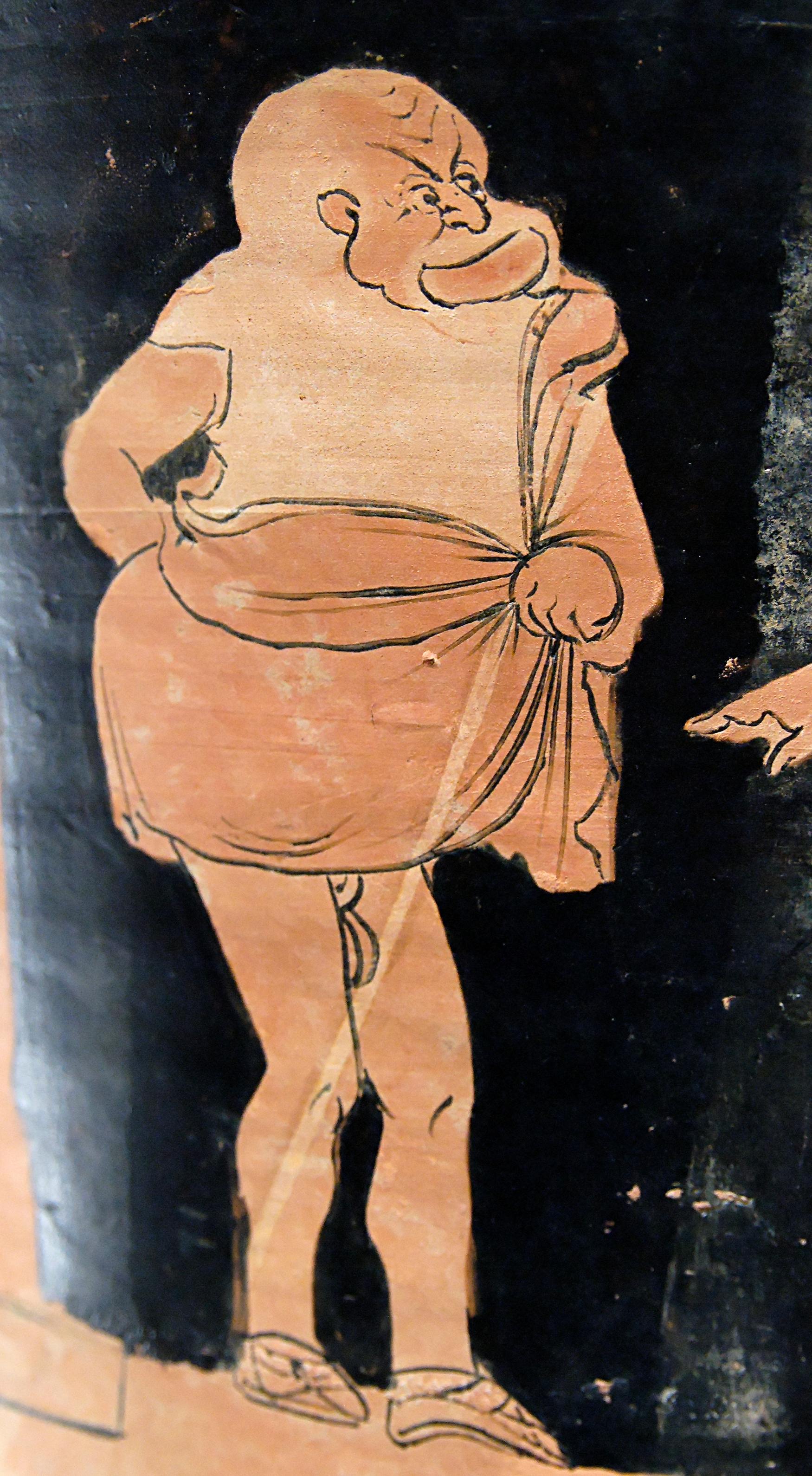 Slave wearing the short tunic, phlyax actor. Detail, side A from a Sicilian red-figured calyx-krater, ca. 350 BC–340 BC.